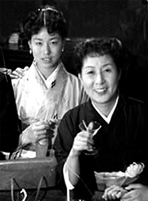 Yoshie Mizuatni (1939– ) and her mother Yaeko Mizuatni I (1905–79)